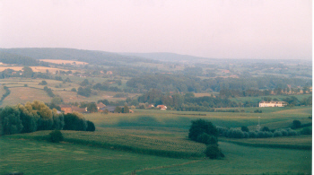 Green landscape in South Limburg.